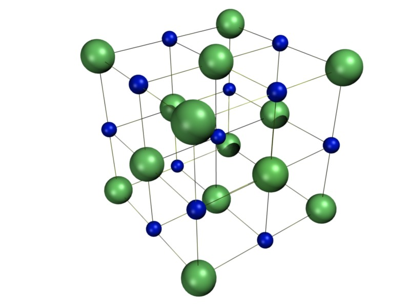 Crystal Structure of sodium chloride (NaCl).